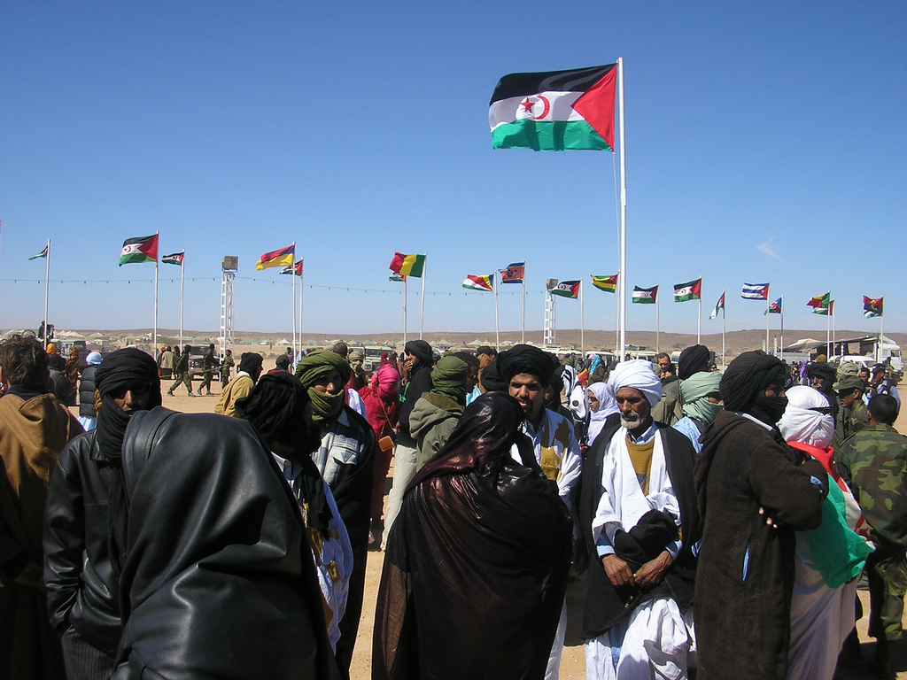 Commemoration of the Saharawi Republic’s 30th anniversary in liberated territories of Western Sahara